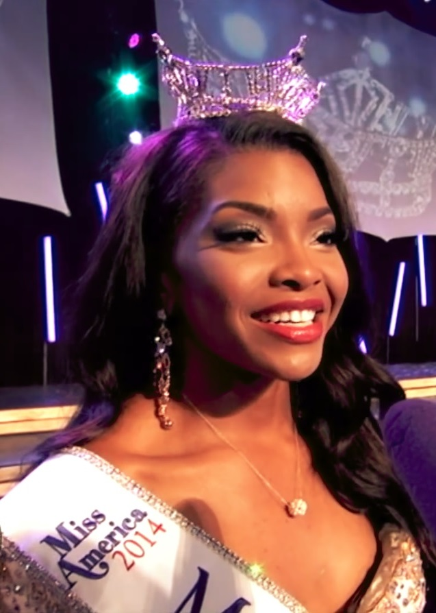 Jasmine Murray, 2014 Miss Mississippi, interviewed after winning the crown by VTV, Vicksburg government access cable television.